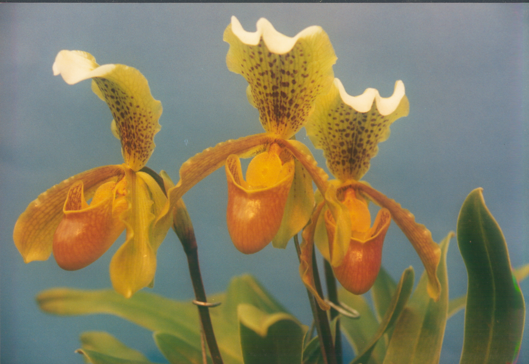 Paphiopedilum insigne